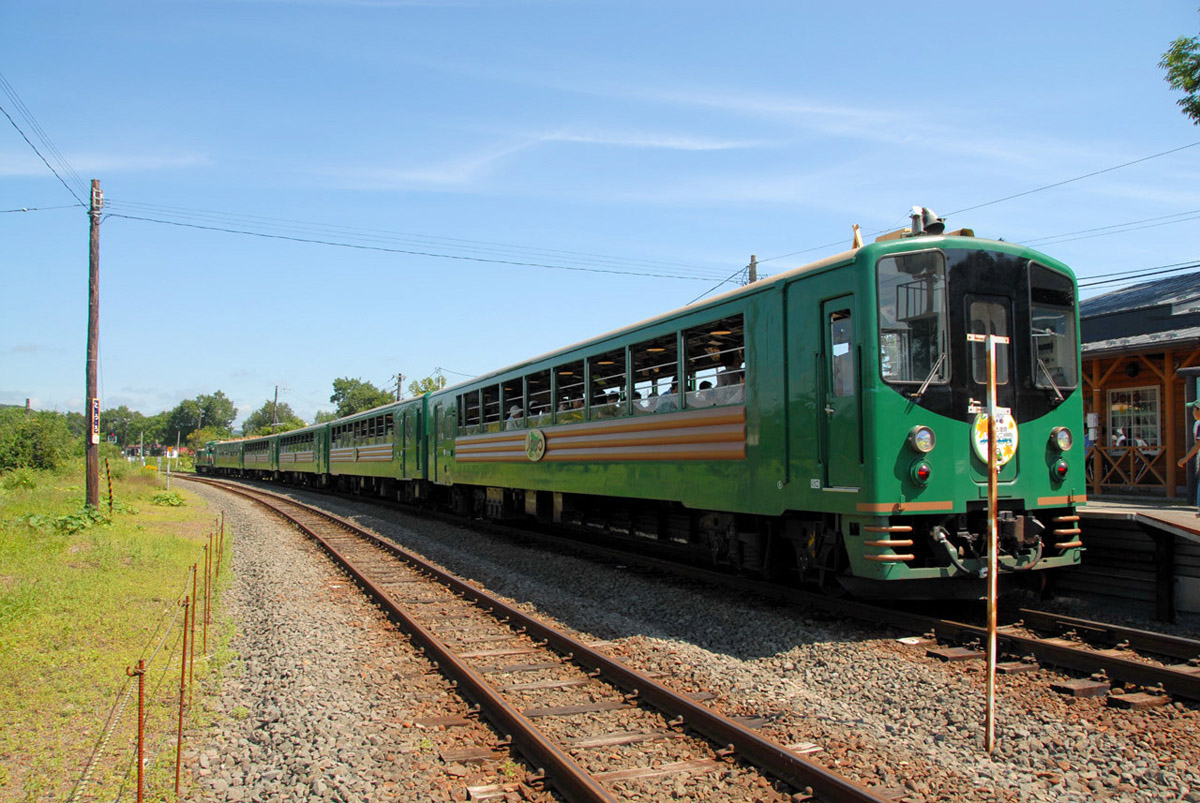 Special sight-seeing train "Kushiro-Shitsugen Norokko", photo taken in Tōro Station